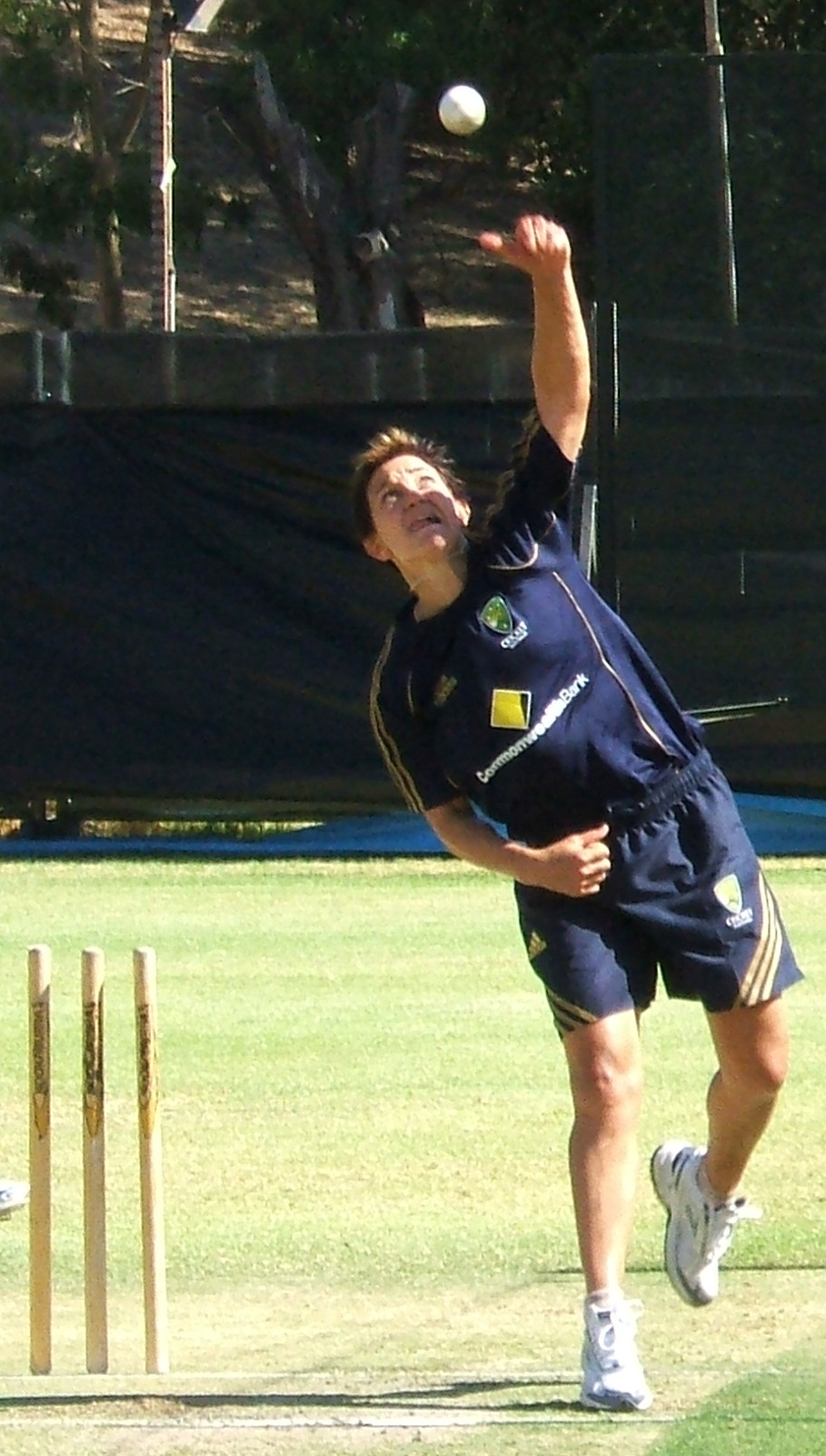 Named person engaging in named action at Adelaide Oval nets/training ground